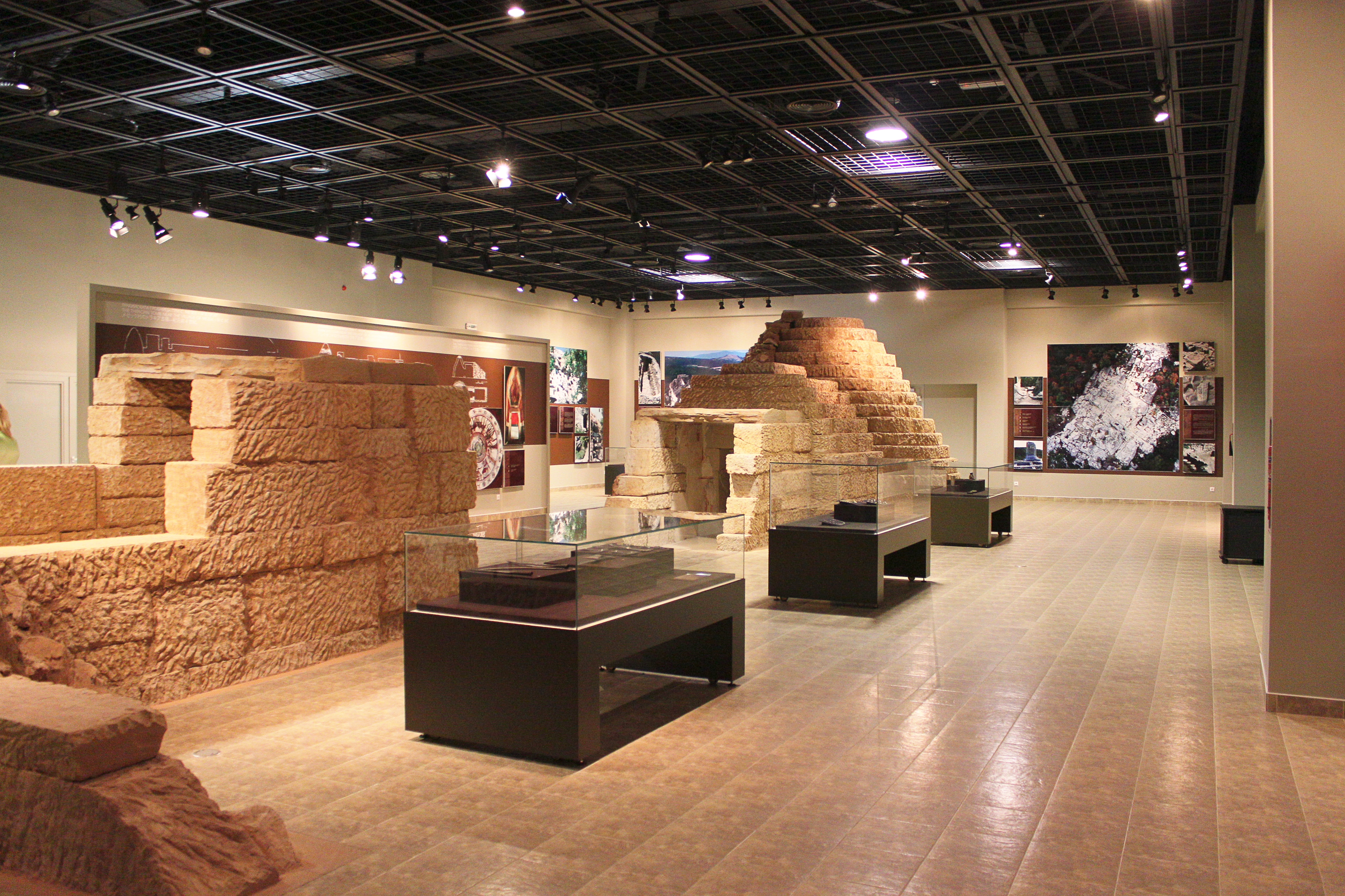 Museum Center Thracian Art in the Eastern Rhodopes, Aleksandrovo, Haskovo District, Bulgaria